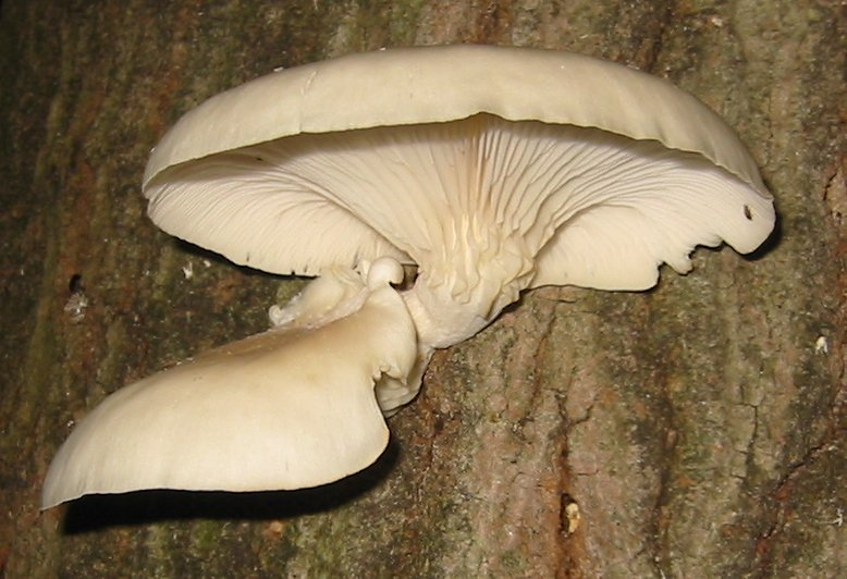 An oyster mushroom in the Middlesex Fells Reservation